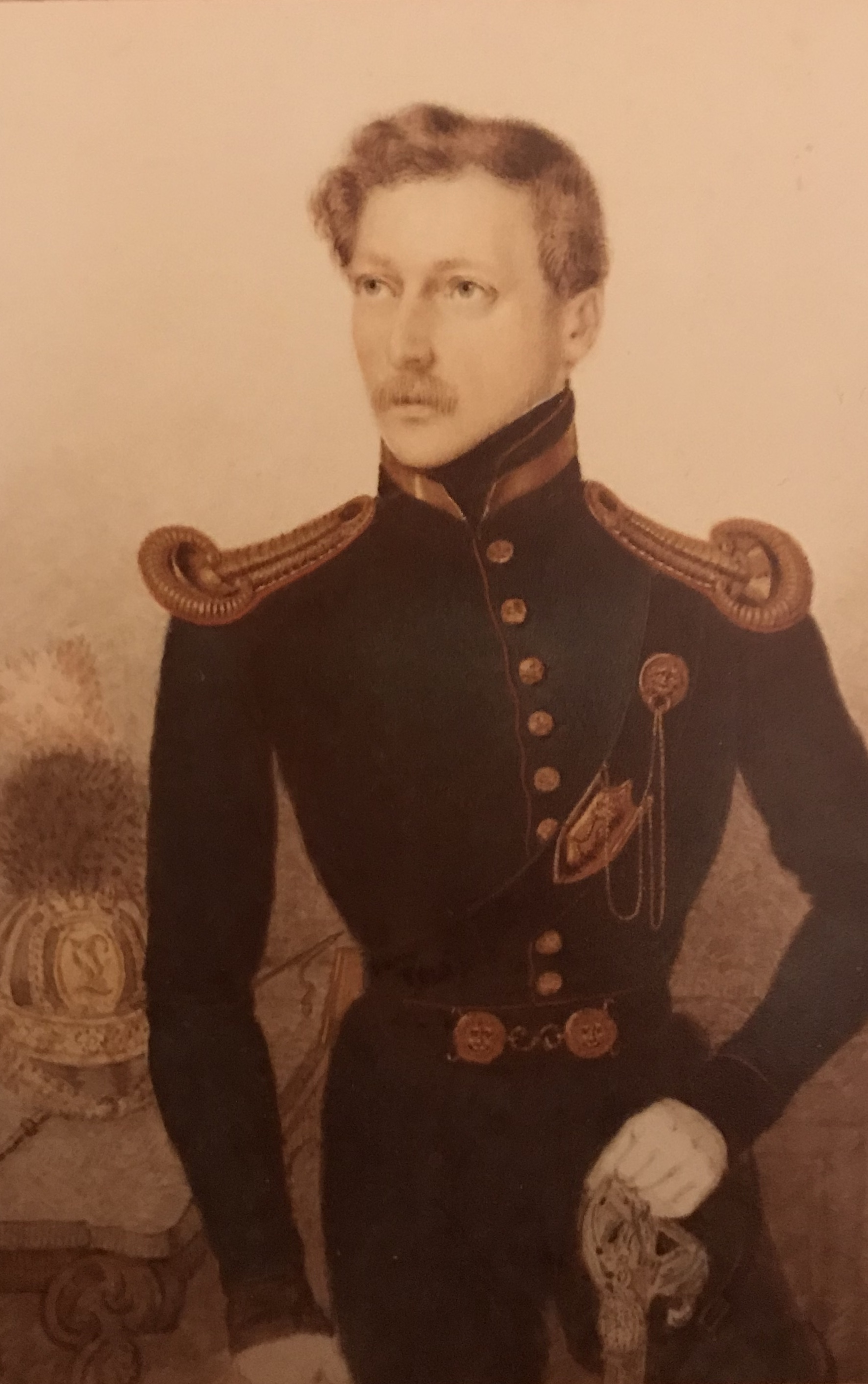 Leutnant Heinrich Bronzetti